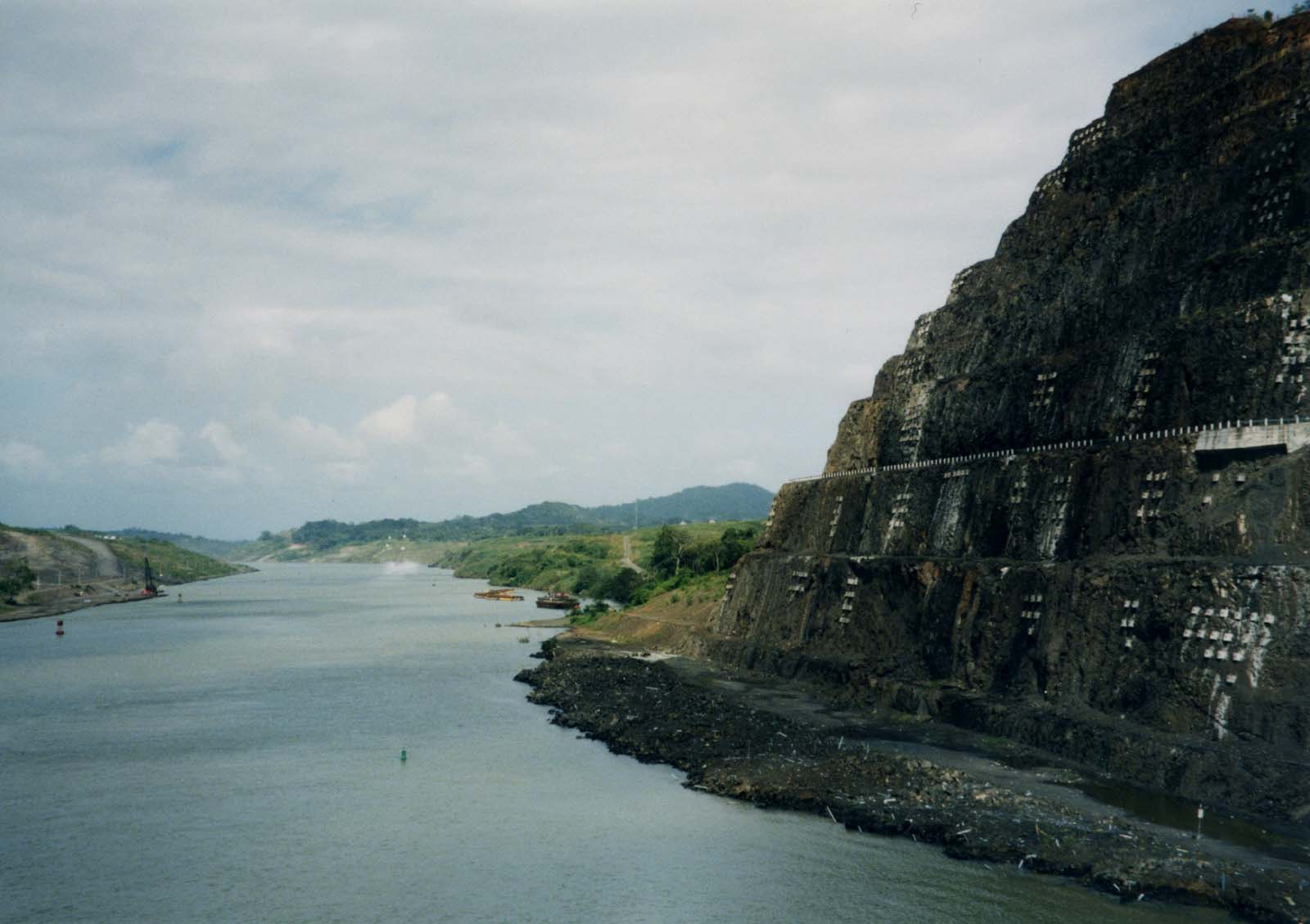 Panama Canal's Gaillard Cut